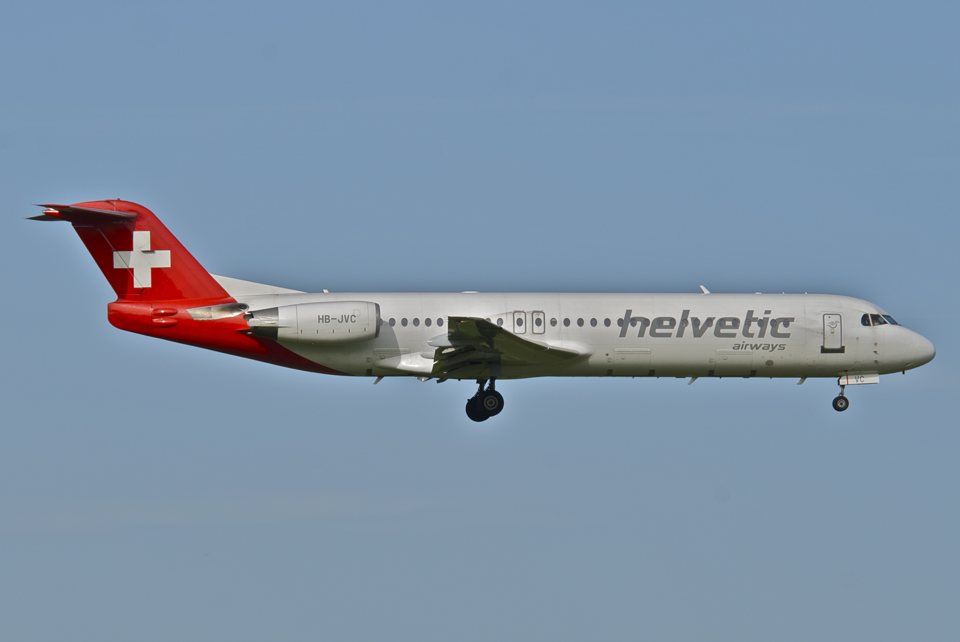 Arriving as LX 1885 from Bucharest...